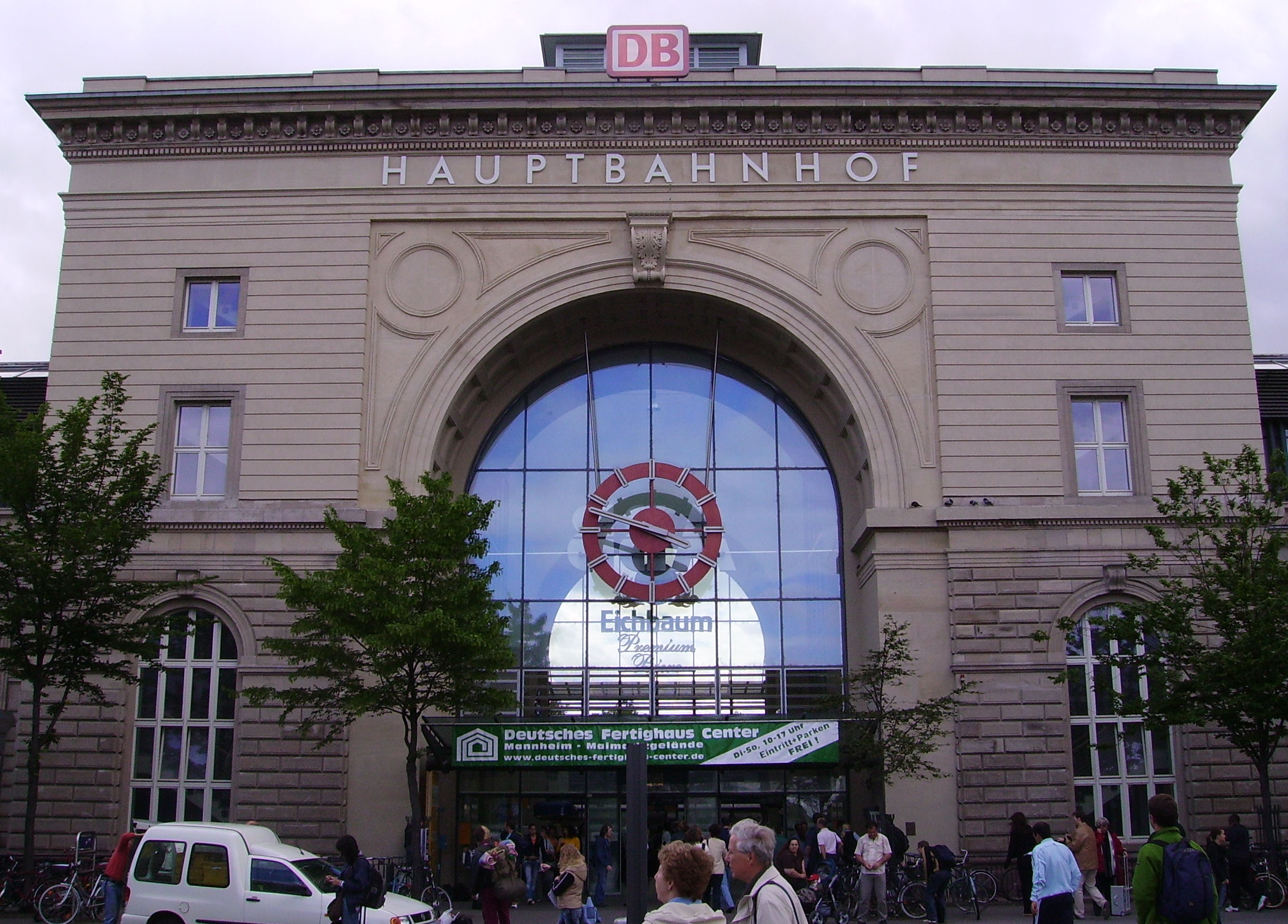 main station of Mannheim, Germany